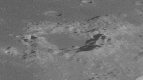 Oblique view of Lyell crater, on the moon, facing west.